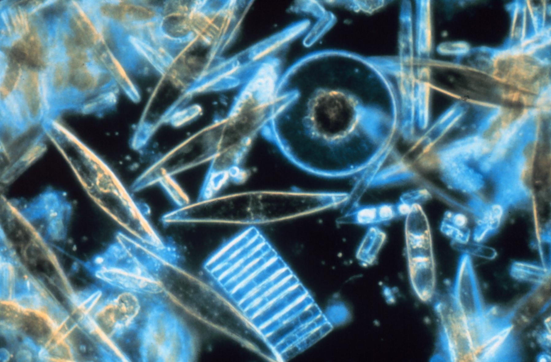 Assorted diatoms as seen through a microscope. These specimens were living between crystals of annual sea ice in McMurdo Sound, Antarctica. Image digitized from original 35mm Ektachrome slide. These tiny phytoplankton are encased within a silicate cell wall.